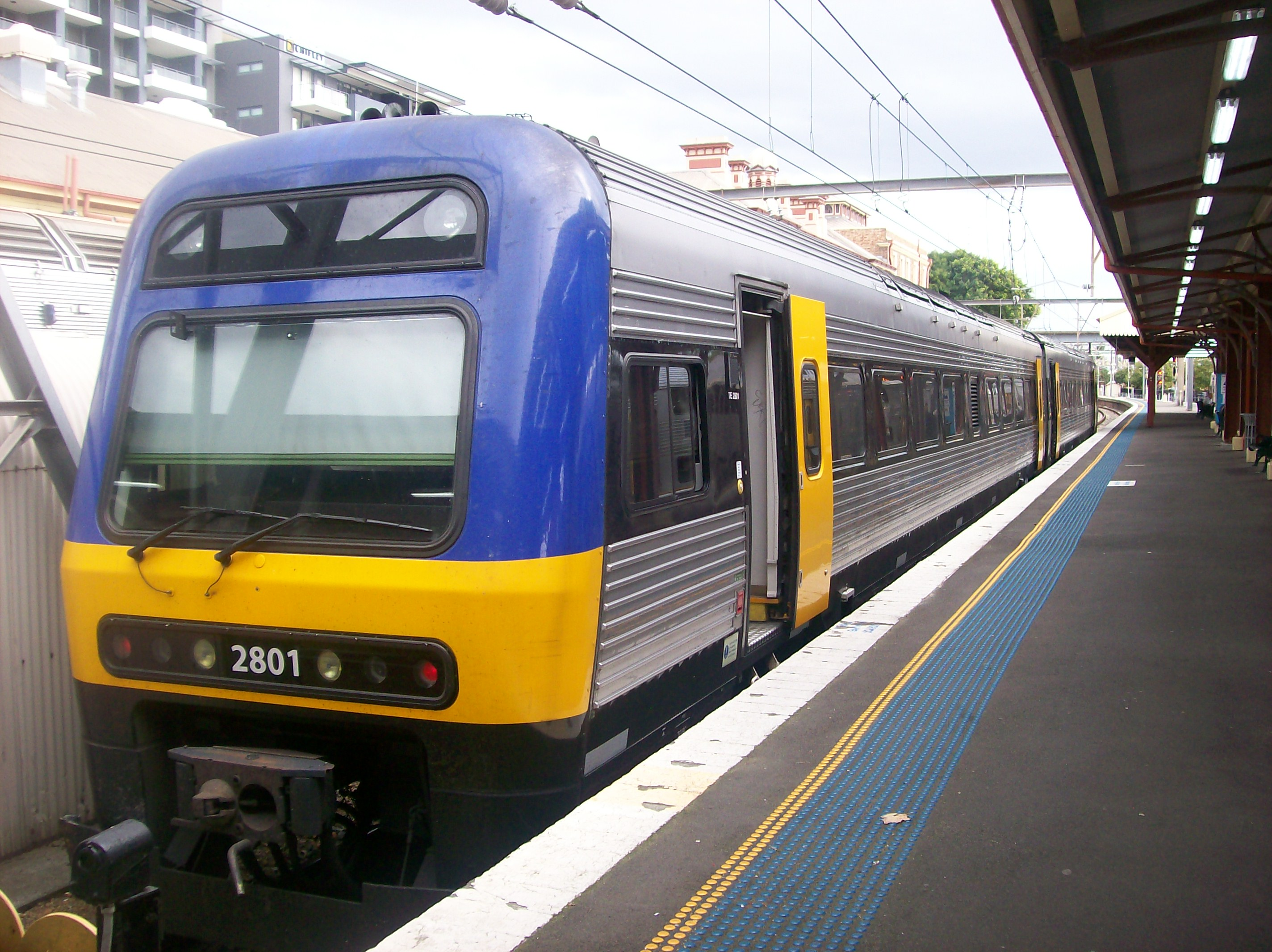 Endeavour railcar at Newcastle railway station, NSW